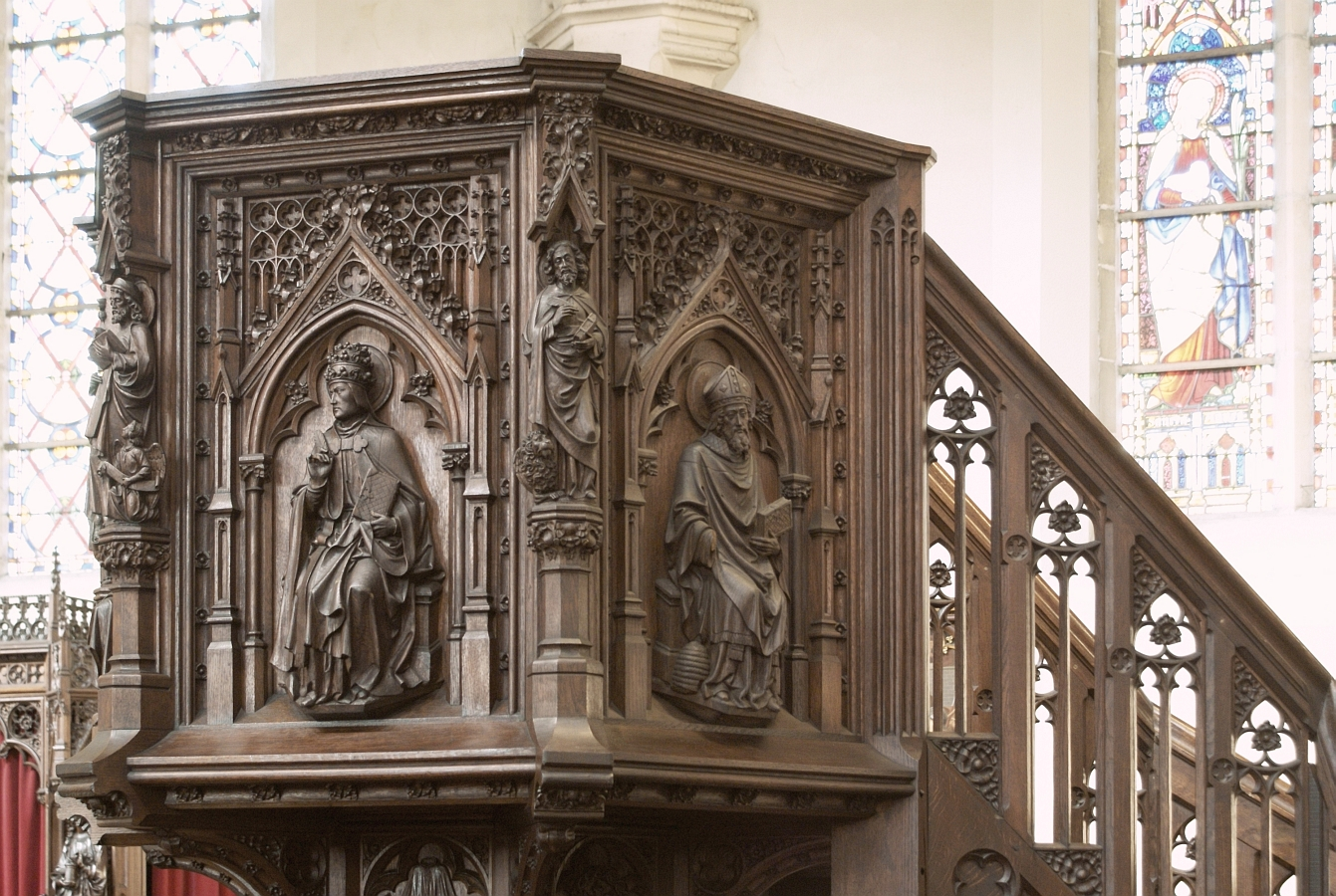 Detail of the pulpit in Sint-Pietersbanden Church in Lommel